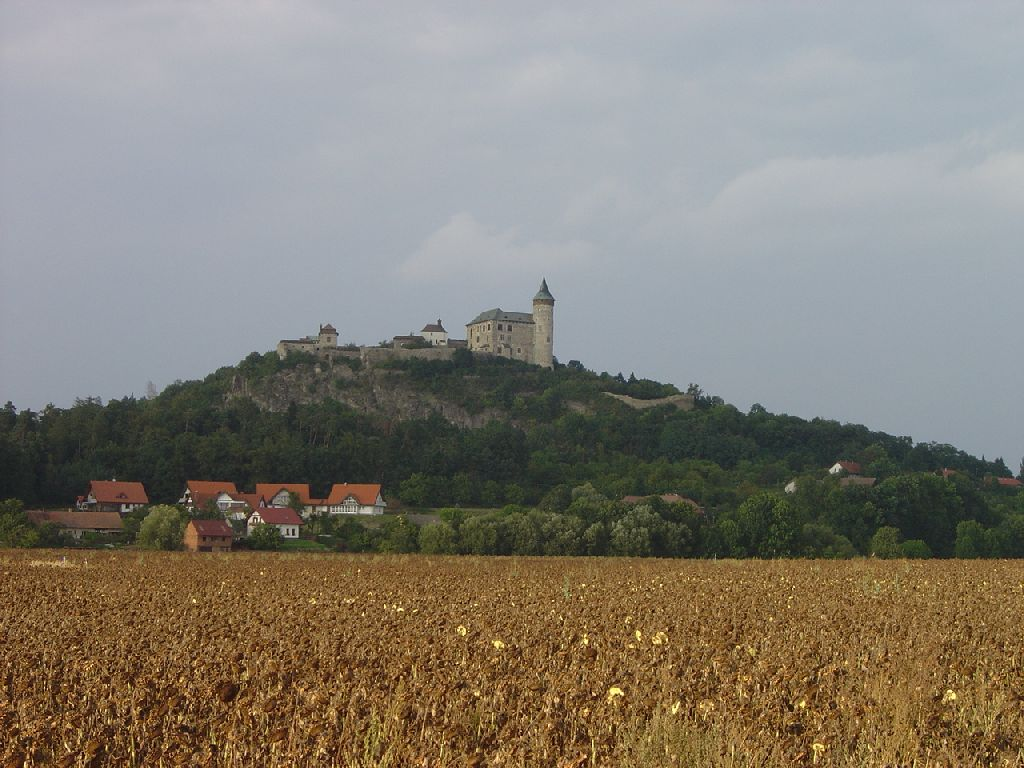 Kunětická hora Castle near Pardubice, Czech Republic, as seen from the south